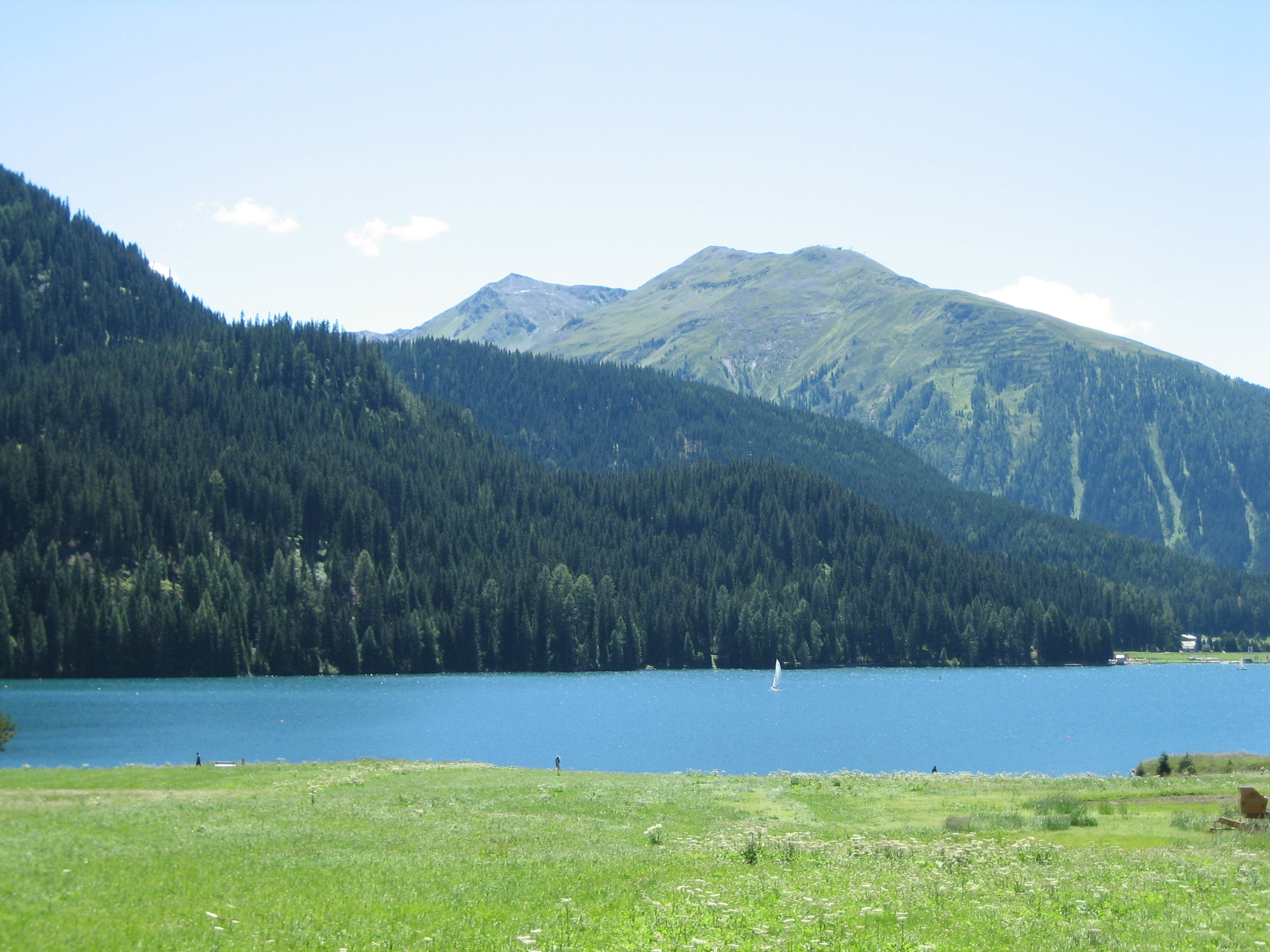 Lake Davos